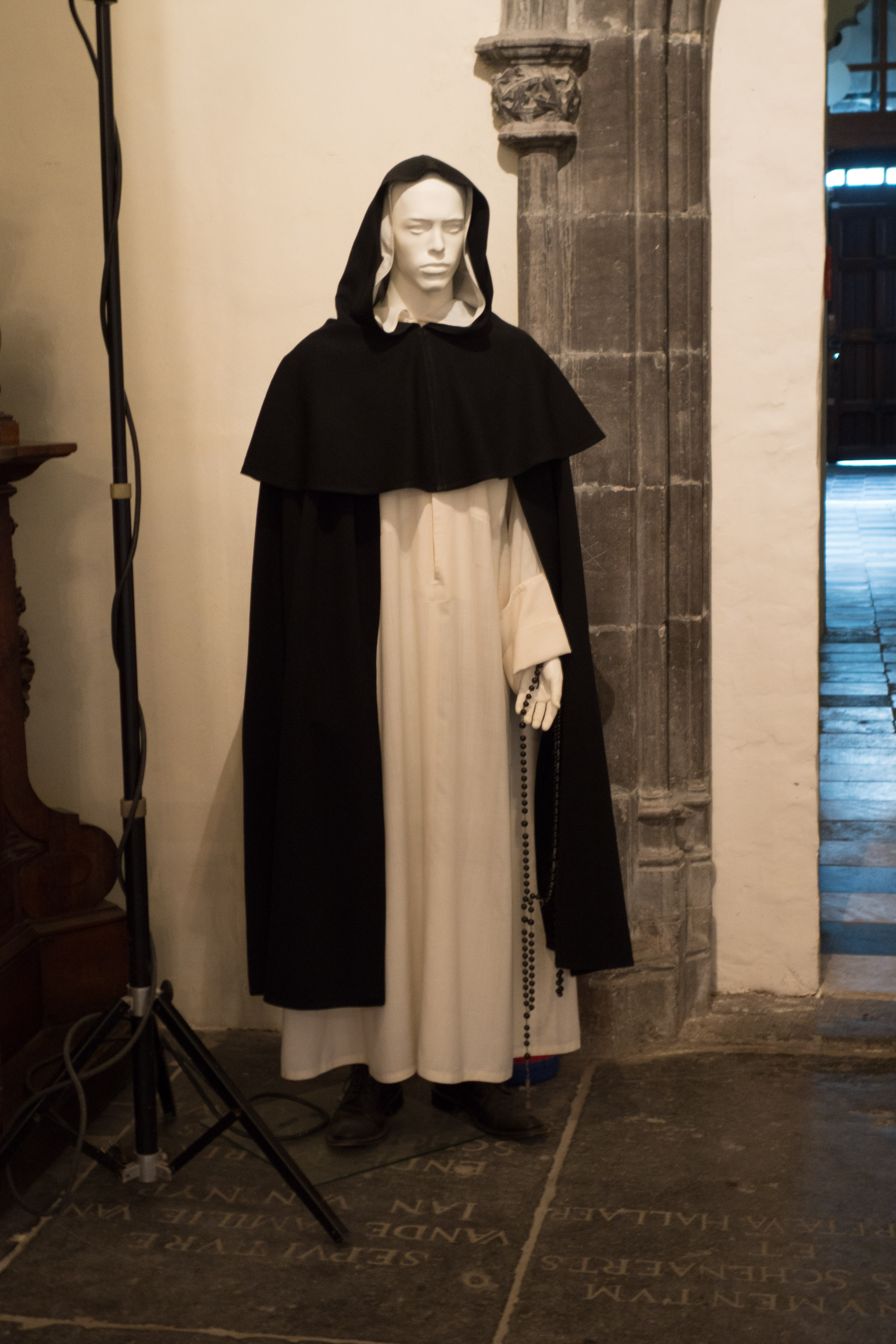 Dominican habit, Belgium.